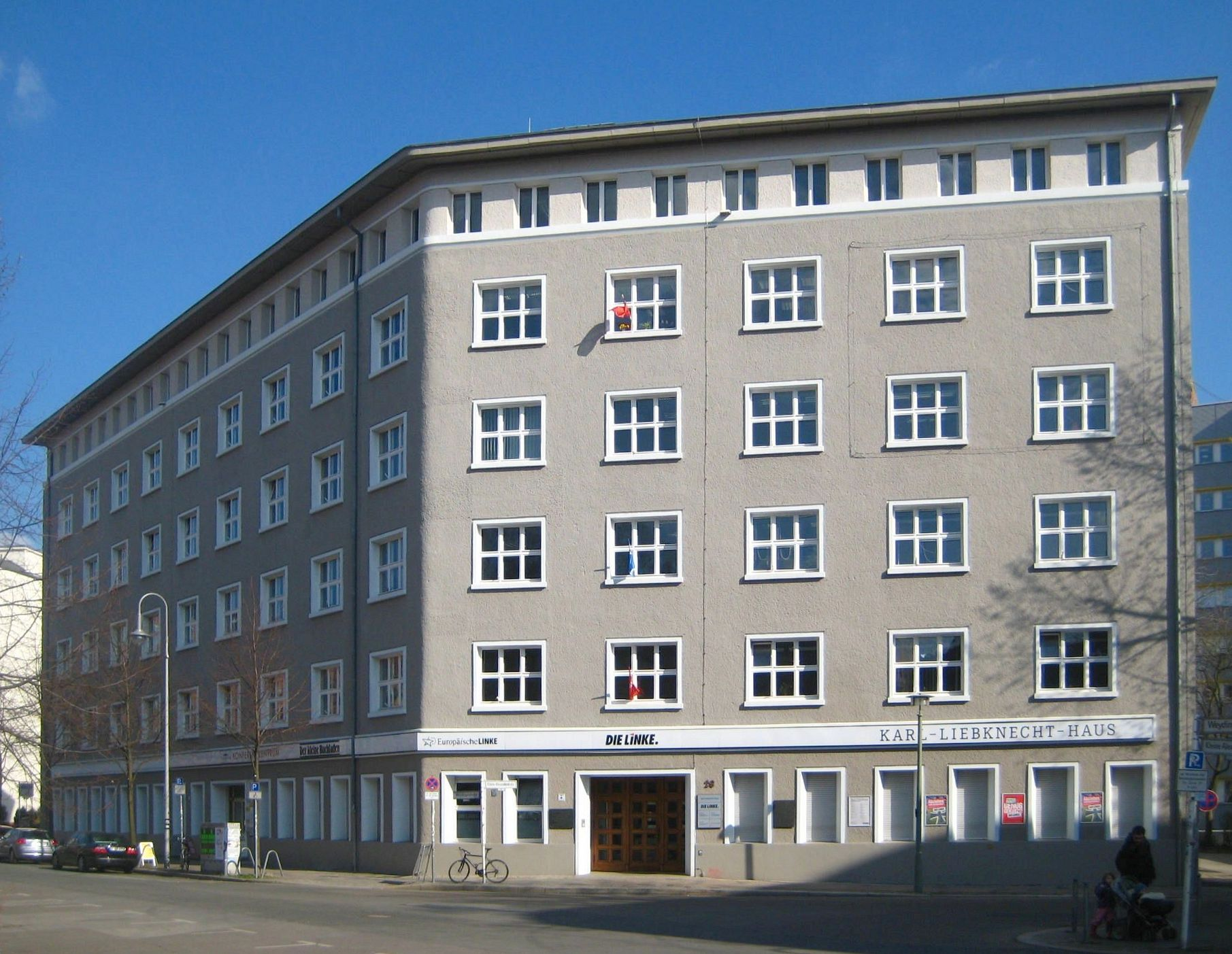 The Karl-Liebknecht-Haus at Weydingerstraße 14/16 in Berlin-Mitte, the party headquarters of Die Linke. The building was constructed in 1912 as commercial building and factory. It is part of the protected historic buildings area Spandauer Vorstand.